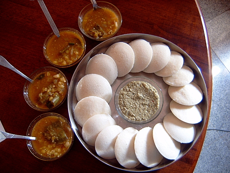 Yummy home-made idlis with chutney and sambar! Taken by Soumya Dey on 29-April-2007.